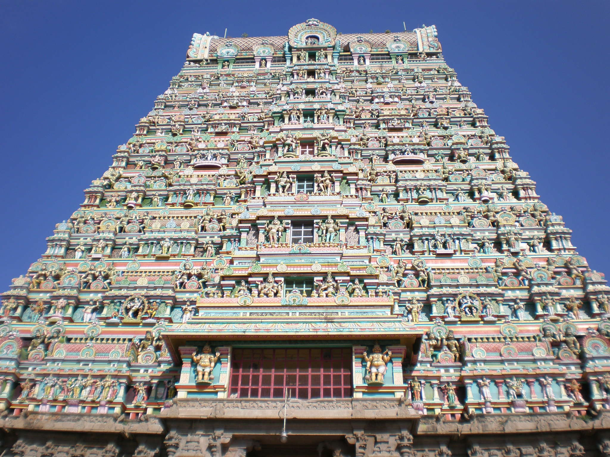 Tenkasi sivan temple Tower - another view